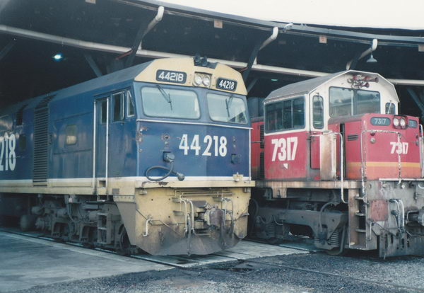 44218 in FreightCorp Blue and 7317 in Candy Liveries at broadmeadow loco roundhouse circa 1990